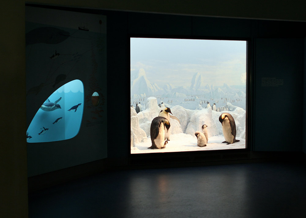 Zoologisk Museum, Copenhagen. 2007. Penguins, Antarctic display.